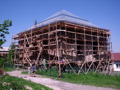 The external view of the synagogue in Rymanów, Poland Picture taken in May 2005 during the reconstruction works